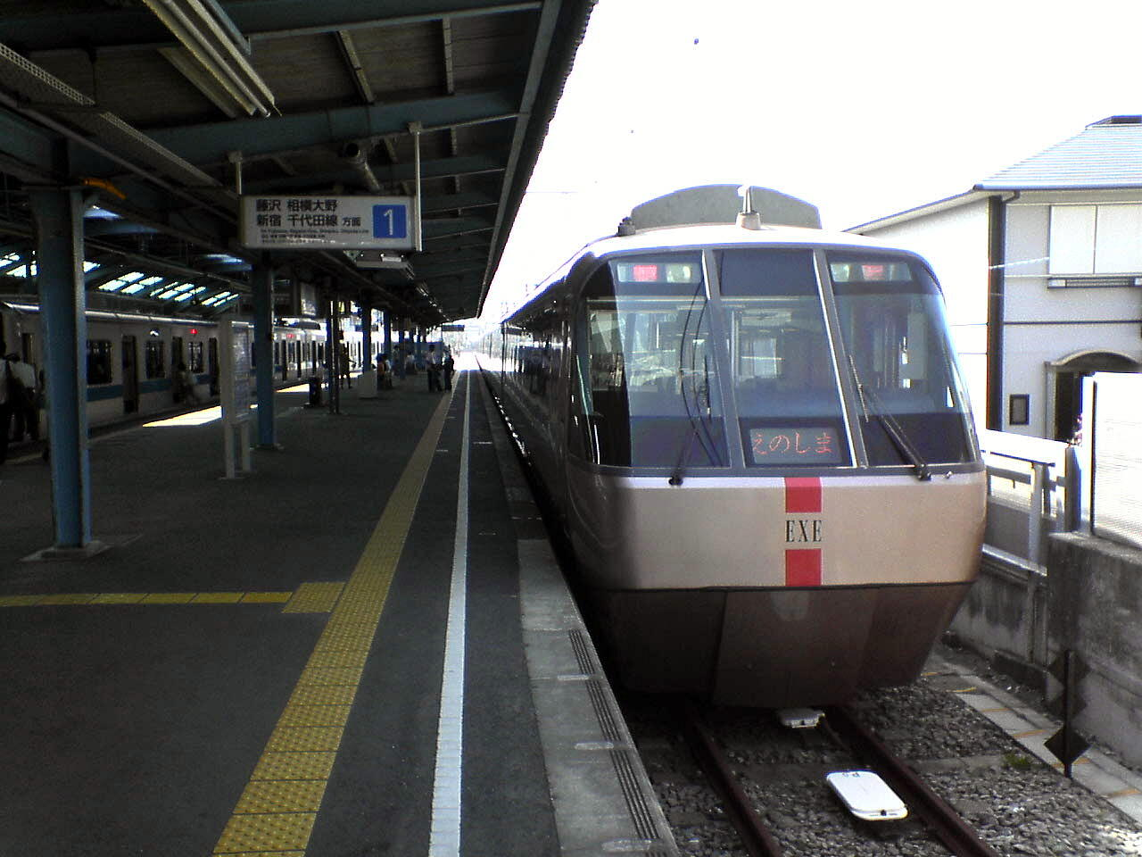 Odakyu Romance Car Series EXE (Model 30000) at Katase Enoshima Station